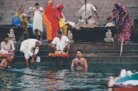 Bathing in the river of Varanasi als has a religious meaning